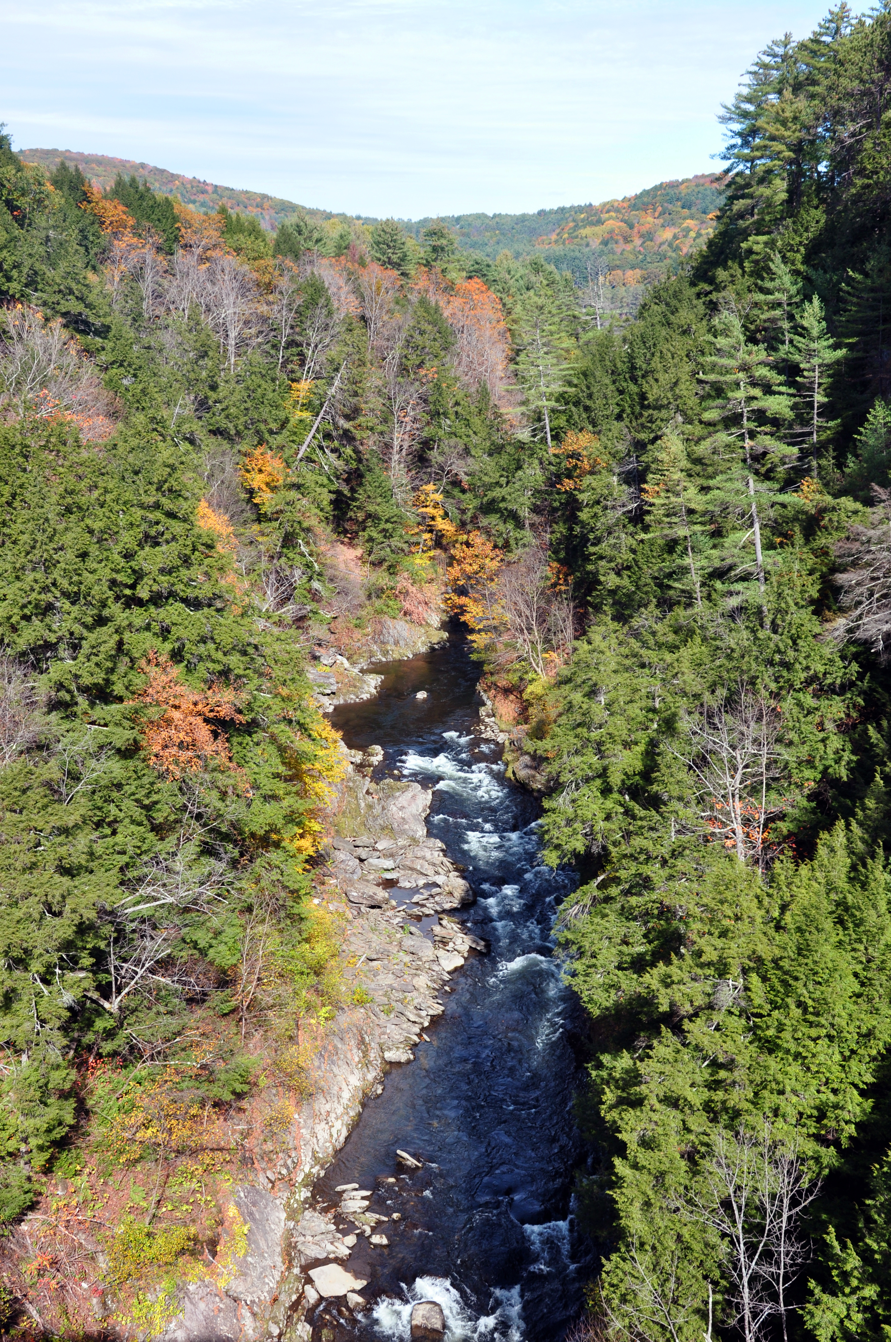 Quechee Gorge Vermont 2009